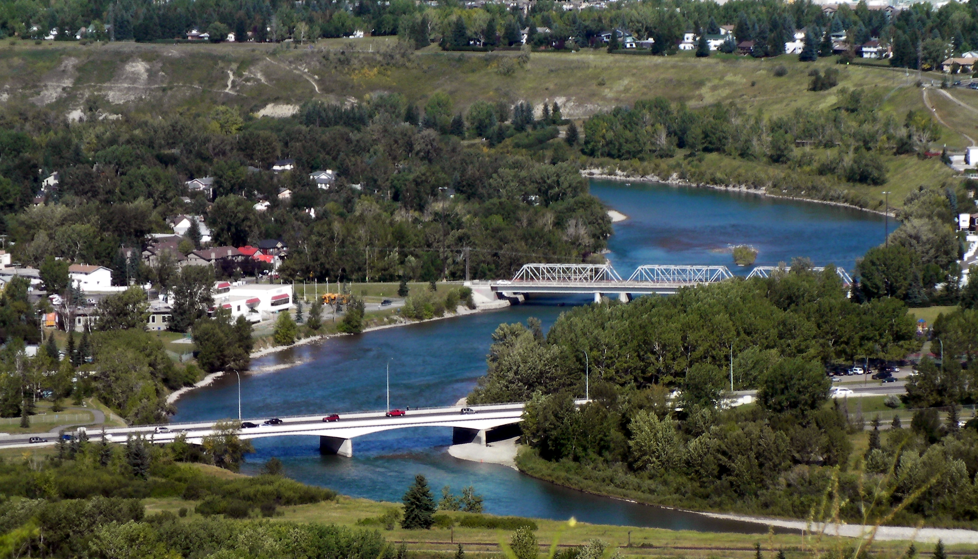 Trans-Canada Highway Bridge andBowness Road over Bow River in Bowness, Calgary, Alberta, Canada